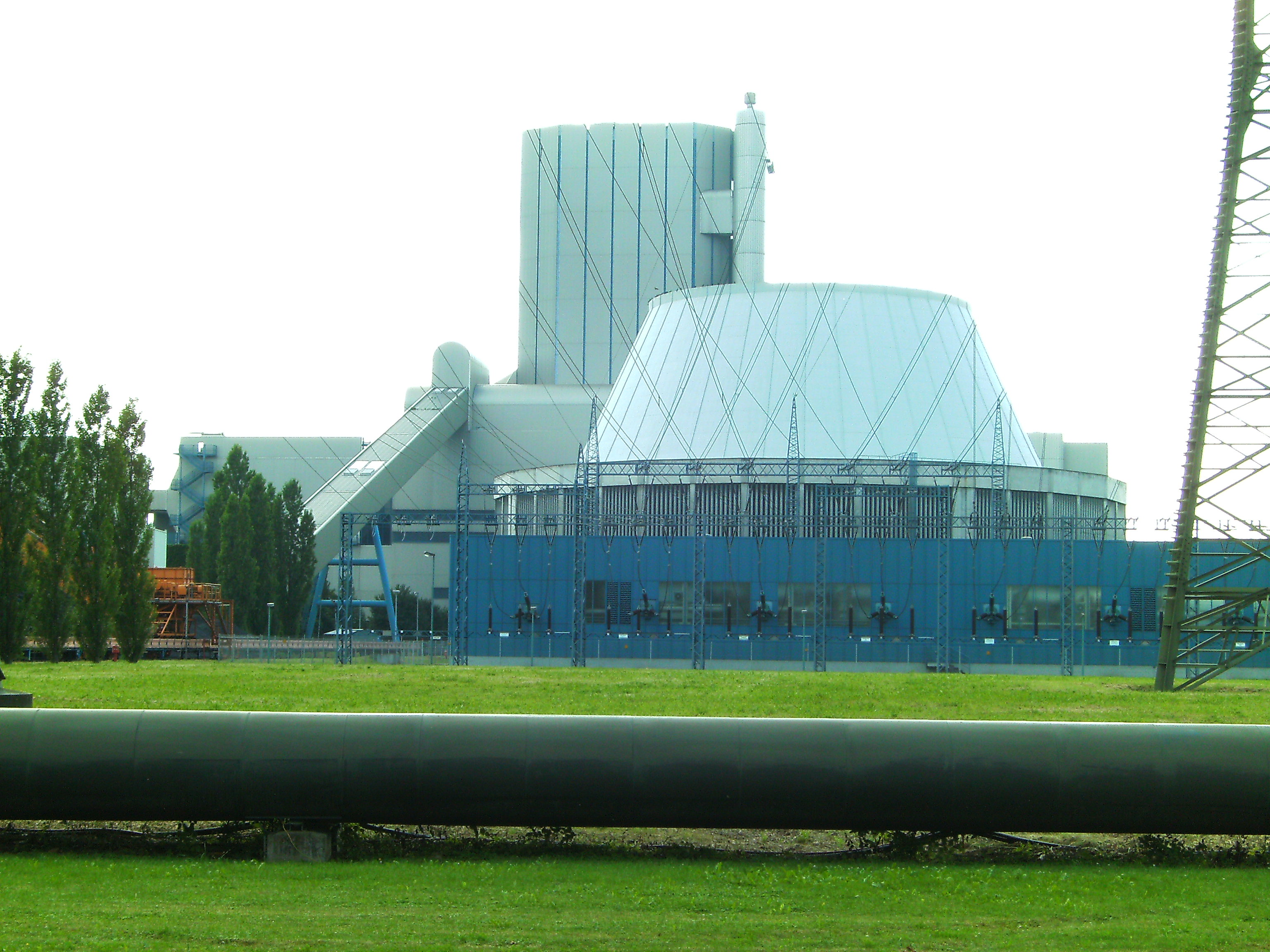 Altbach Power Plant, Unit 1, 380 kV substation